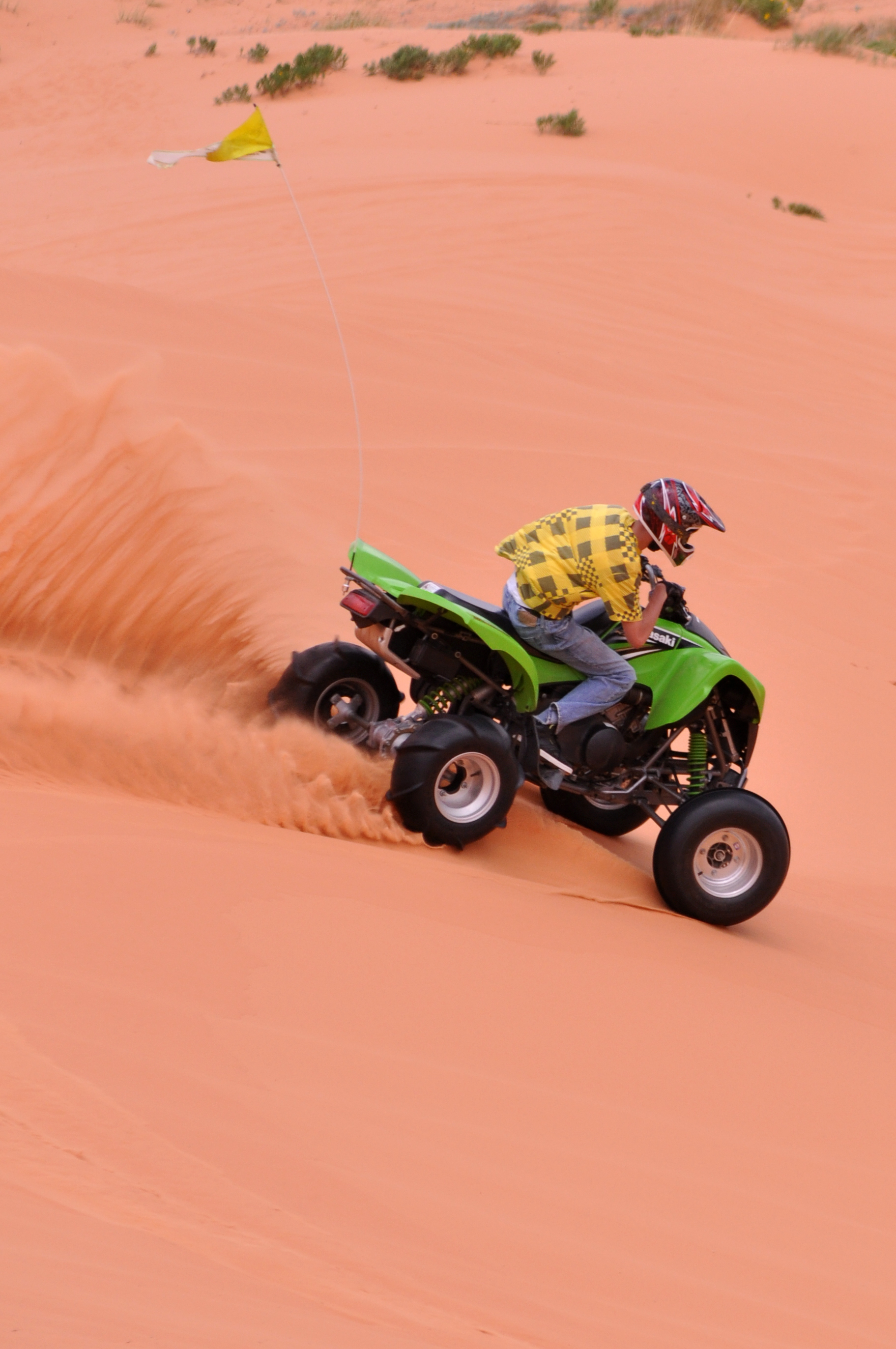 Coral Pink Sand Dunes State Park, Utah